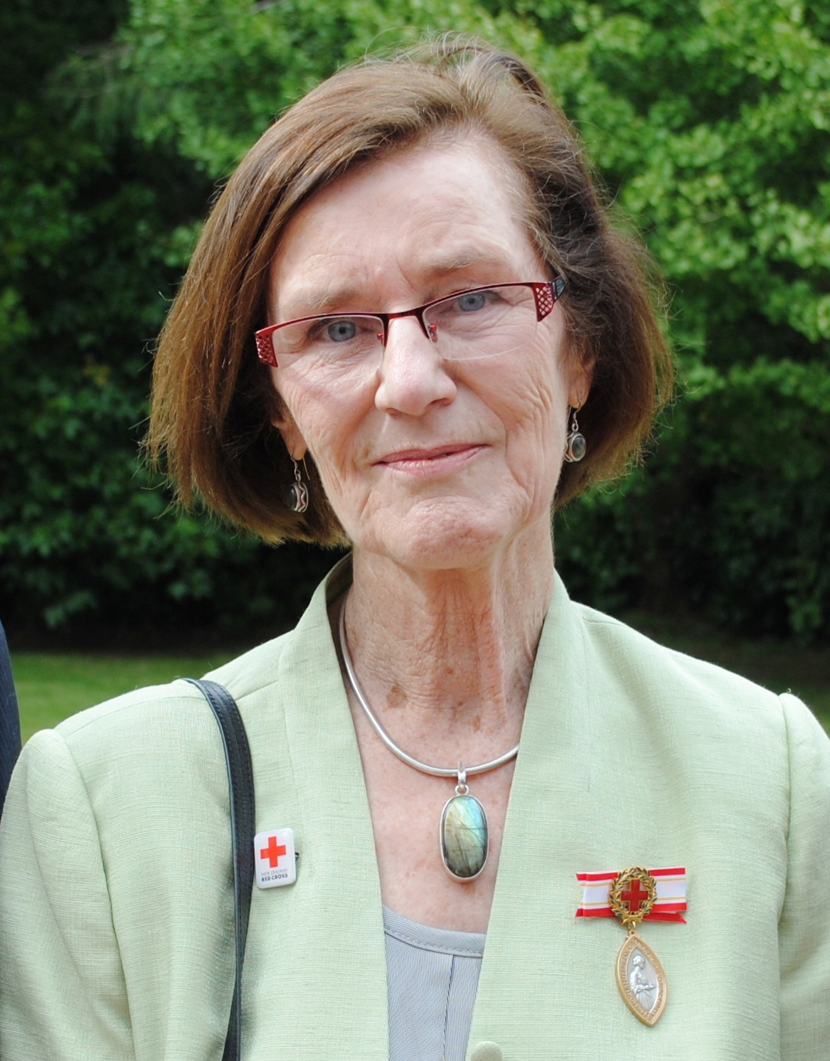 Joyce Hood, after being presented with the Florence Nightingale Medal, at Vogel House, Lower Hutt, on 18 March 2010.